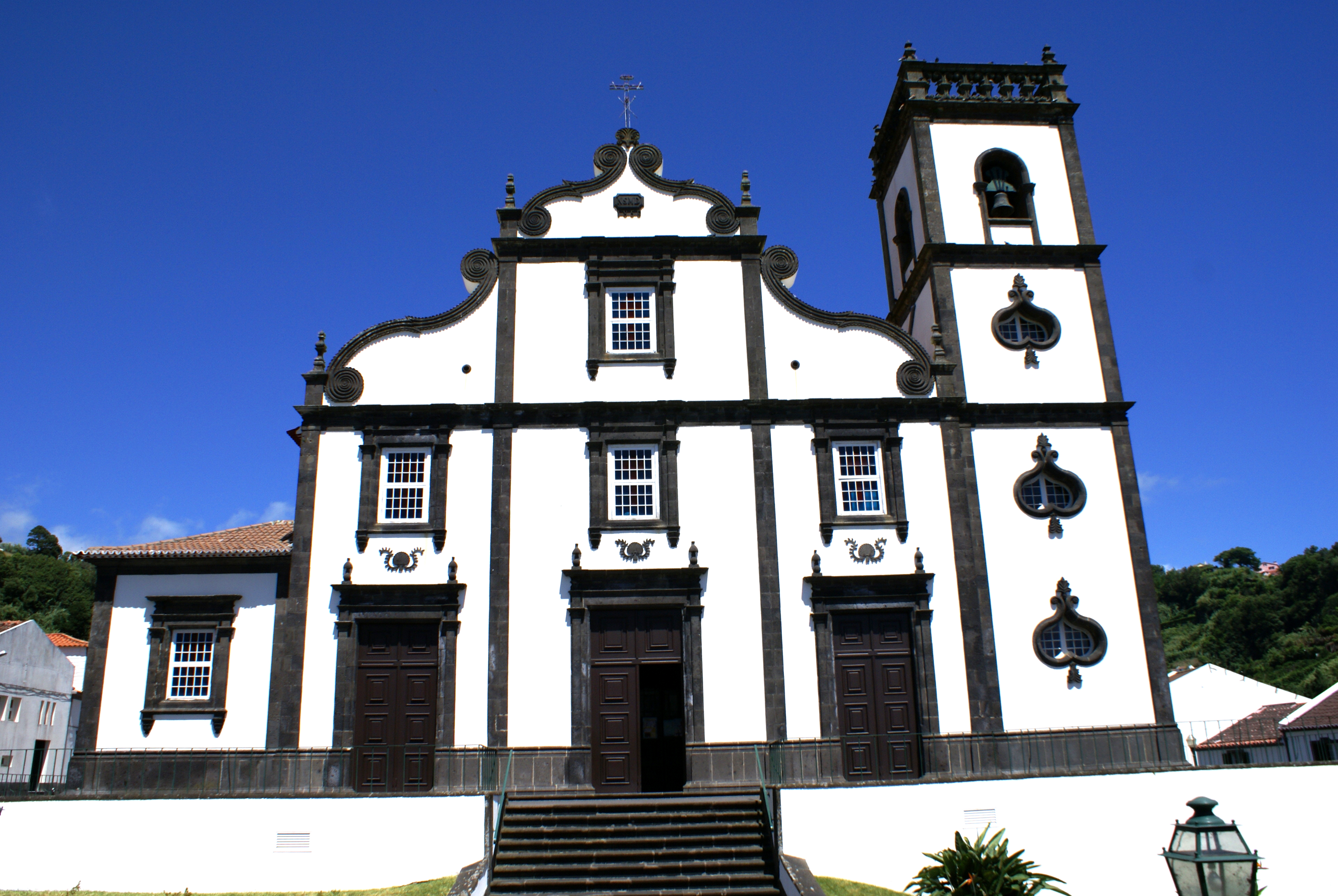 Front façade of the Church of Nossa Senhora Mãe de Deus, fachada, Povoação, São Miguel (Azores), Portugal